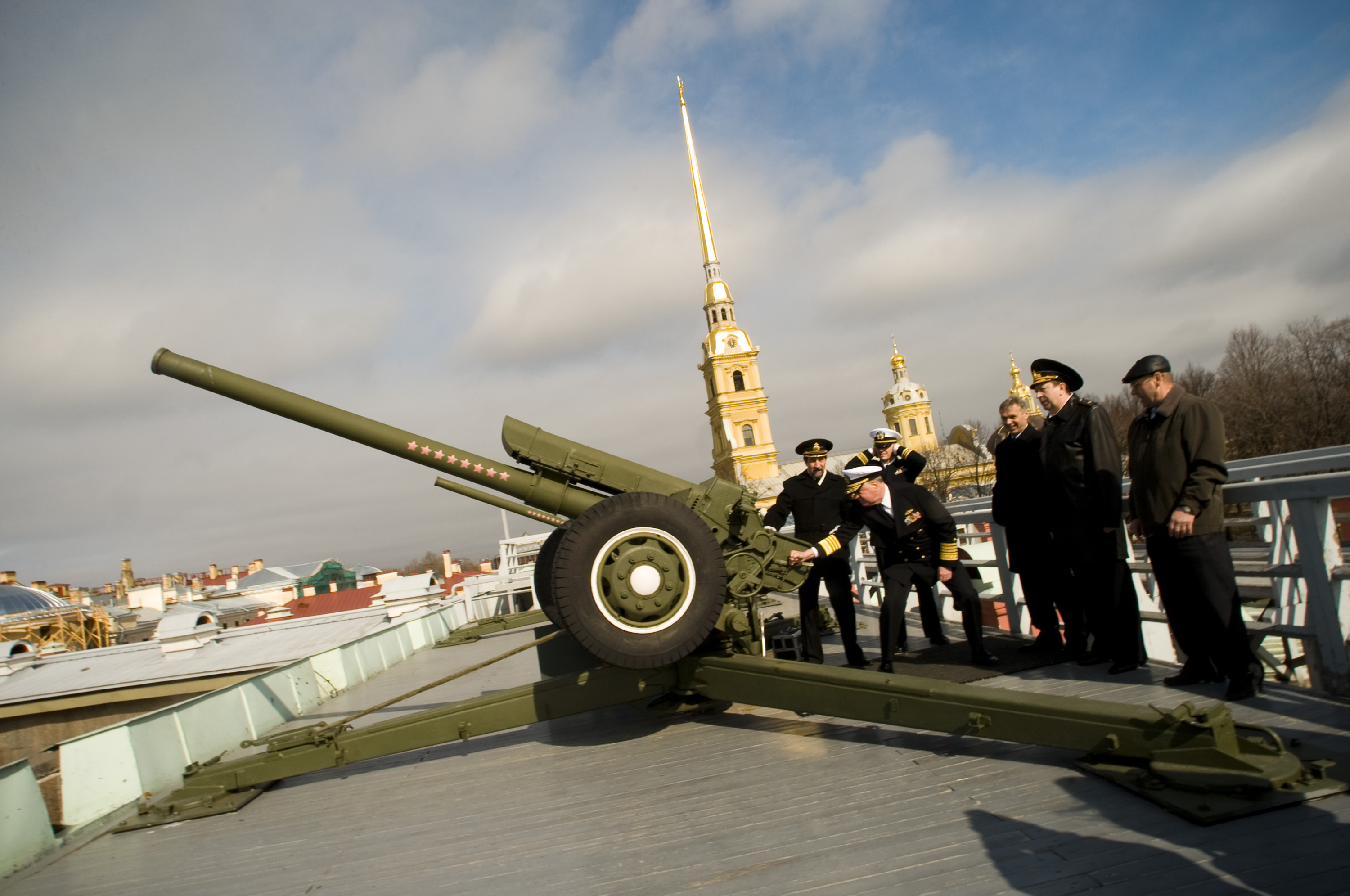 ST. PETERSBURG, Russia (April 17, 2011) Chief of Naval Operations (CNO) Adm. Gary Roughead fires the traditional noon cannon at the St. Peter and Paul fortress in St. Petersburg, Russia. (U.S. Navy photo by Chief Mass Communication Specialist Tiffini Jones Vanderwyst/Released)